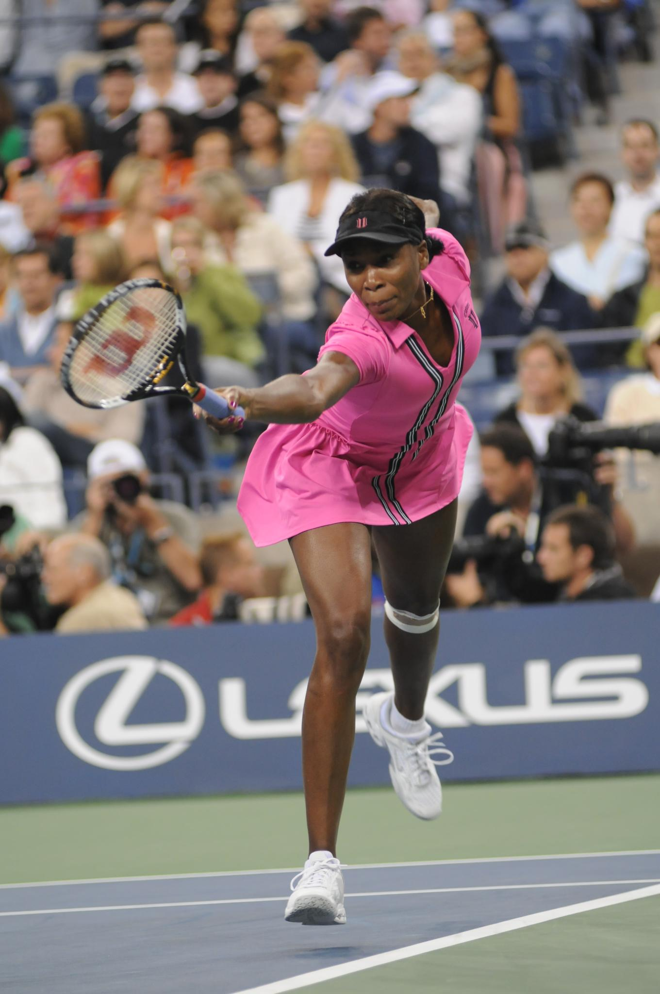 Venus Williams at the 2009 US Open